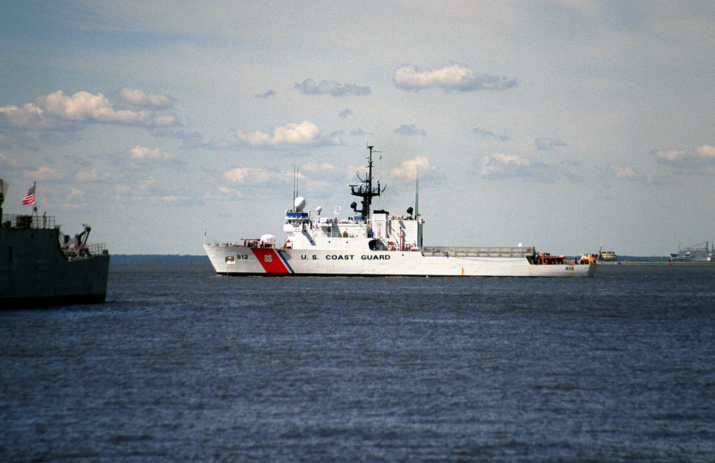 Port side view of the US Coast Guard Famous Class Medium-Endurance Cutter USCG LEGARE (WMEC 912) passing by pier No. 9 at the Norfolk Naval Base. The ship is returning to port after the passage of Hurricane Floyd up the east coast. Location: HAMPTON ROADSTEAD, VIRGINIA (VA) UNITED STATES OF AMERICA (USA)